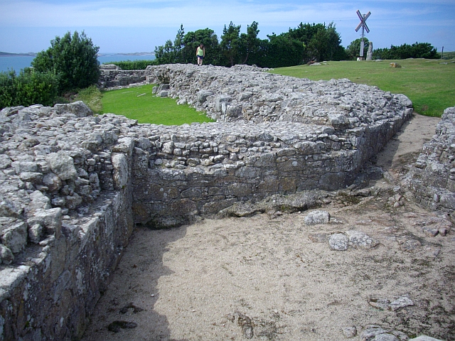 Harry's Walls, St. Mary's A small artillery fort begun in 1551 but never completed. The site was of little use as it only covered St. Mary's Pool but not St. Mary's Sound. Robbed of much stone as useful building material especially the dressed stone used for facing the walls.